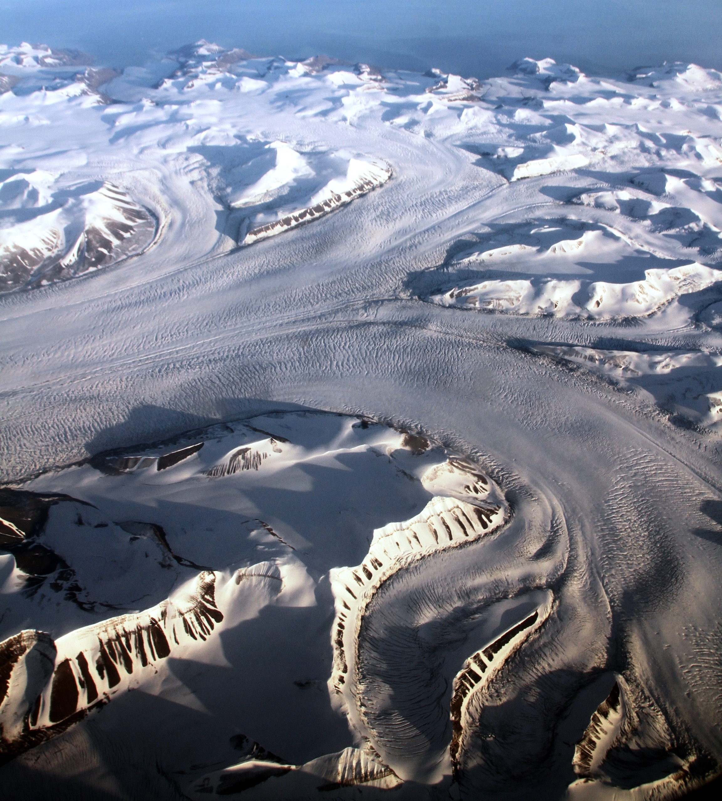 AERIAL VIEW OF TORELL lAND IN SOUTHEASTERN SPITSBERGEN. SEEN FROM THE WEST TOWARDS THE EAST.